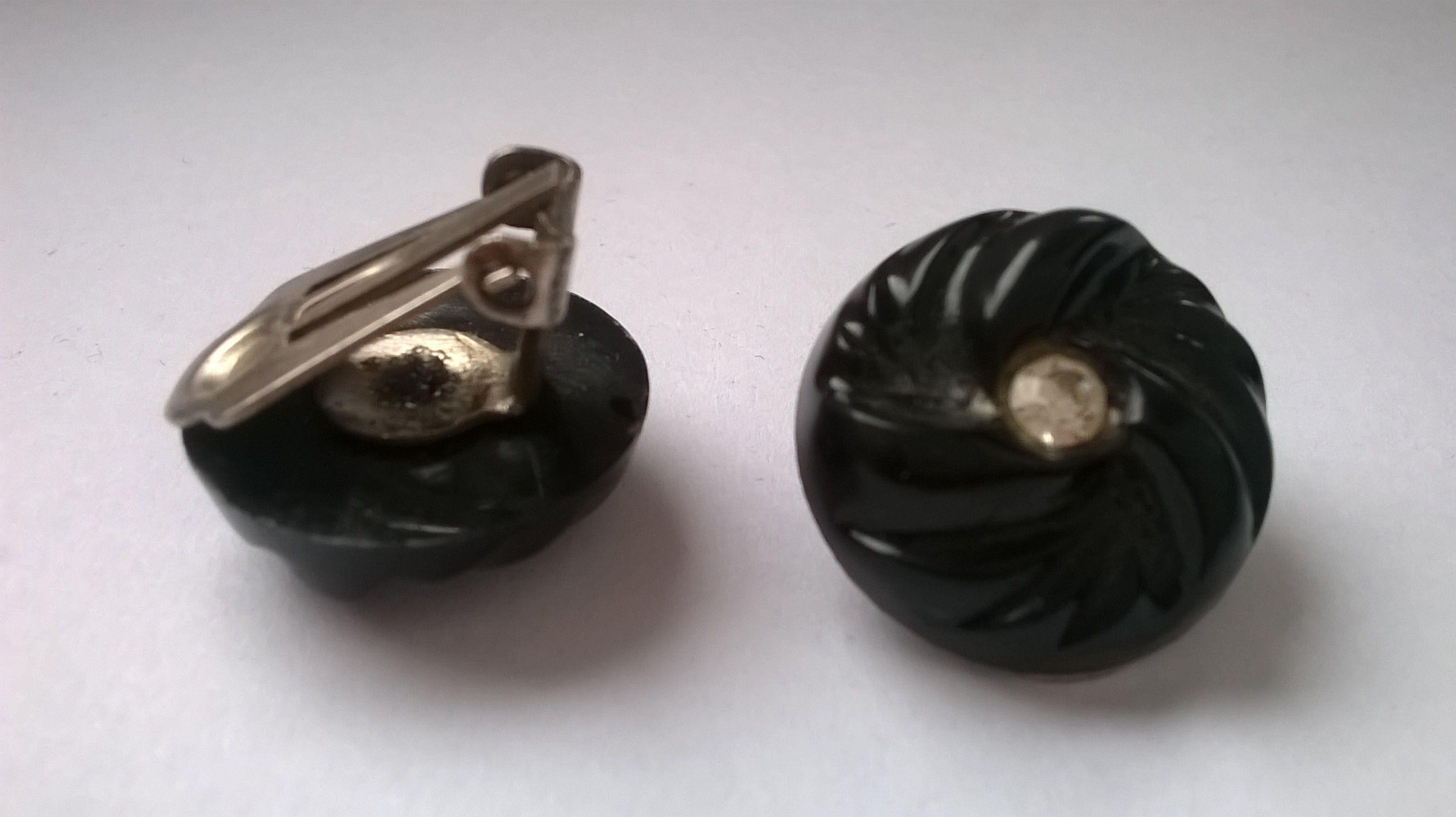 Klipsy